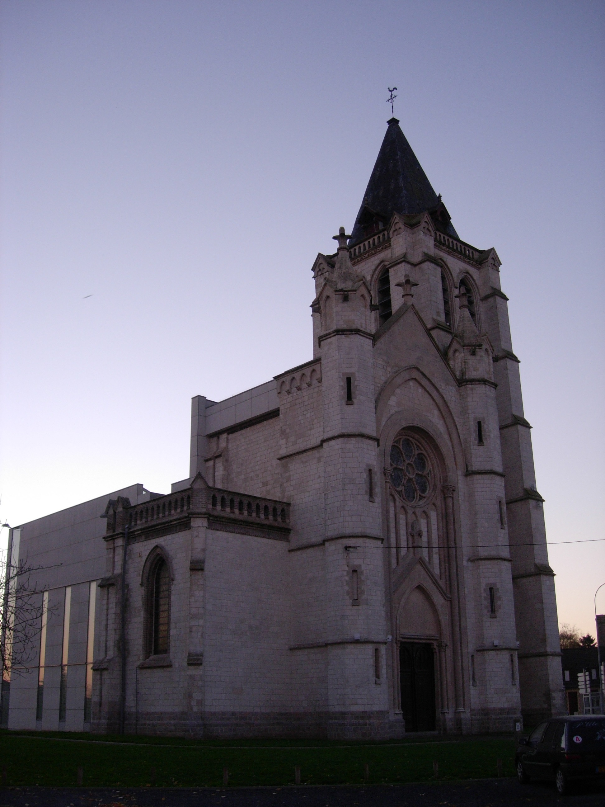 Saint-Martin Church, evening